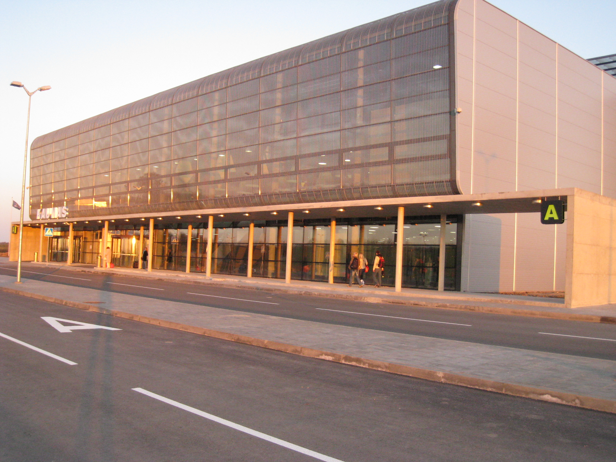 Kaunas airport, terminal A.